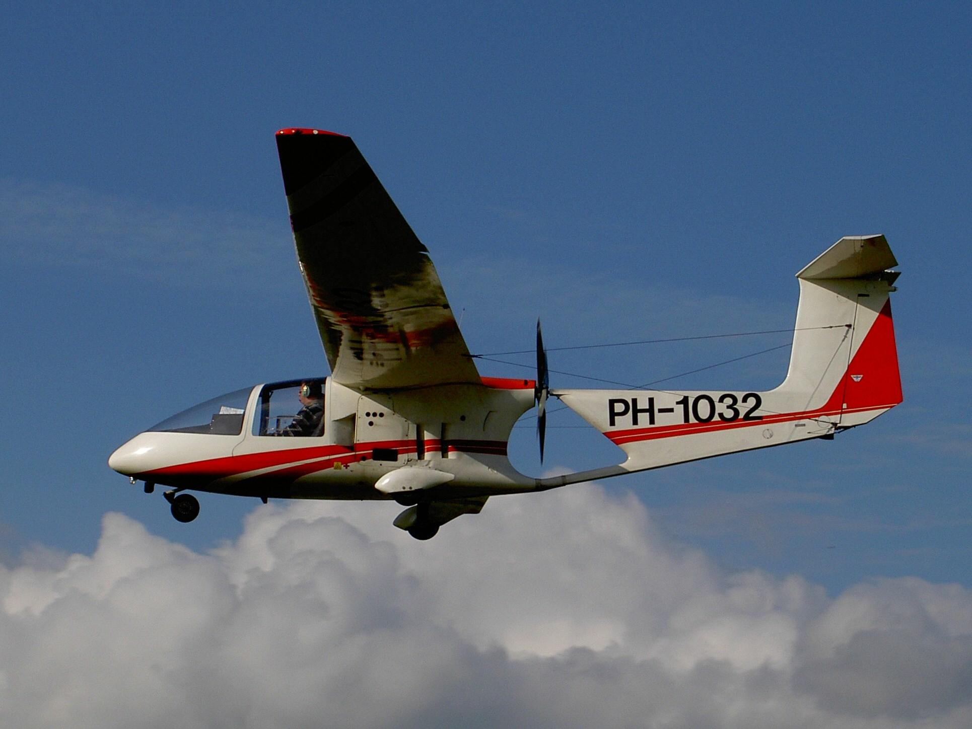 Photographed at Teuge International Airport.